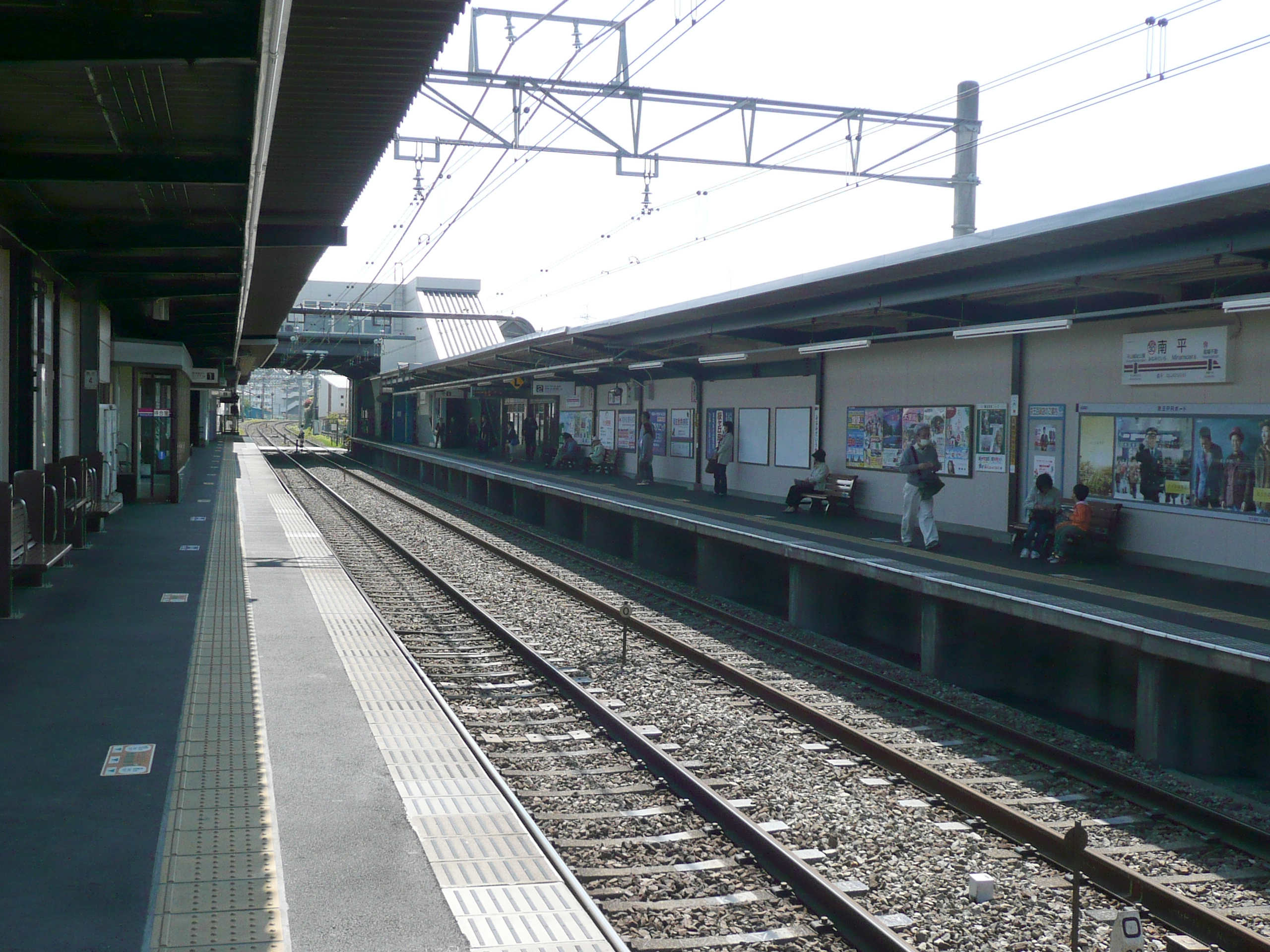 Platforms of Minamidaira Station